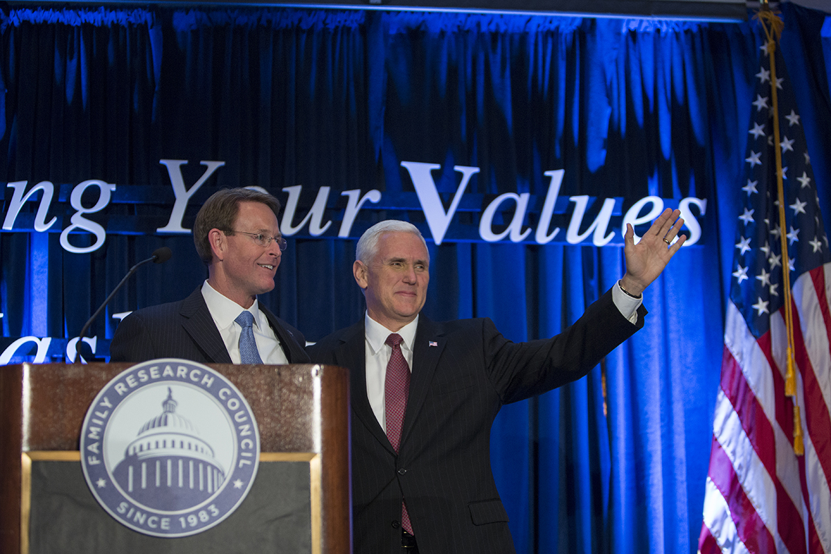 Vice President Mike Pence delivers remarks on Friday, April 7, 2017, during a "Voice Your Values in Washington" event at the Willard Hotel in Washington, D.C. with Tony Perkins (Official White House photo by Paul D. Williams)